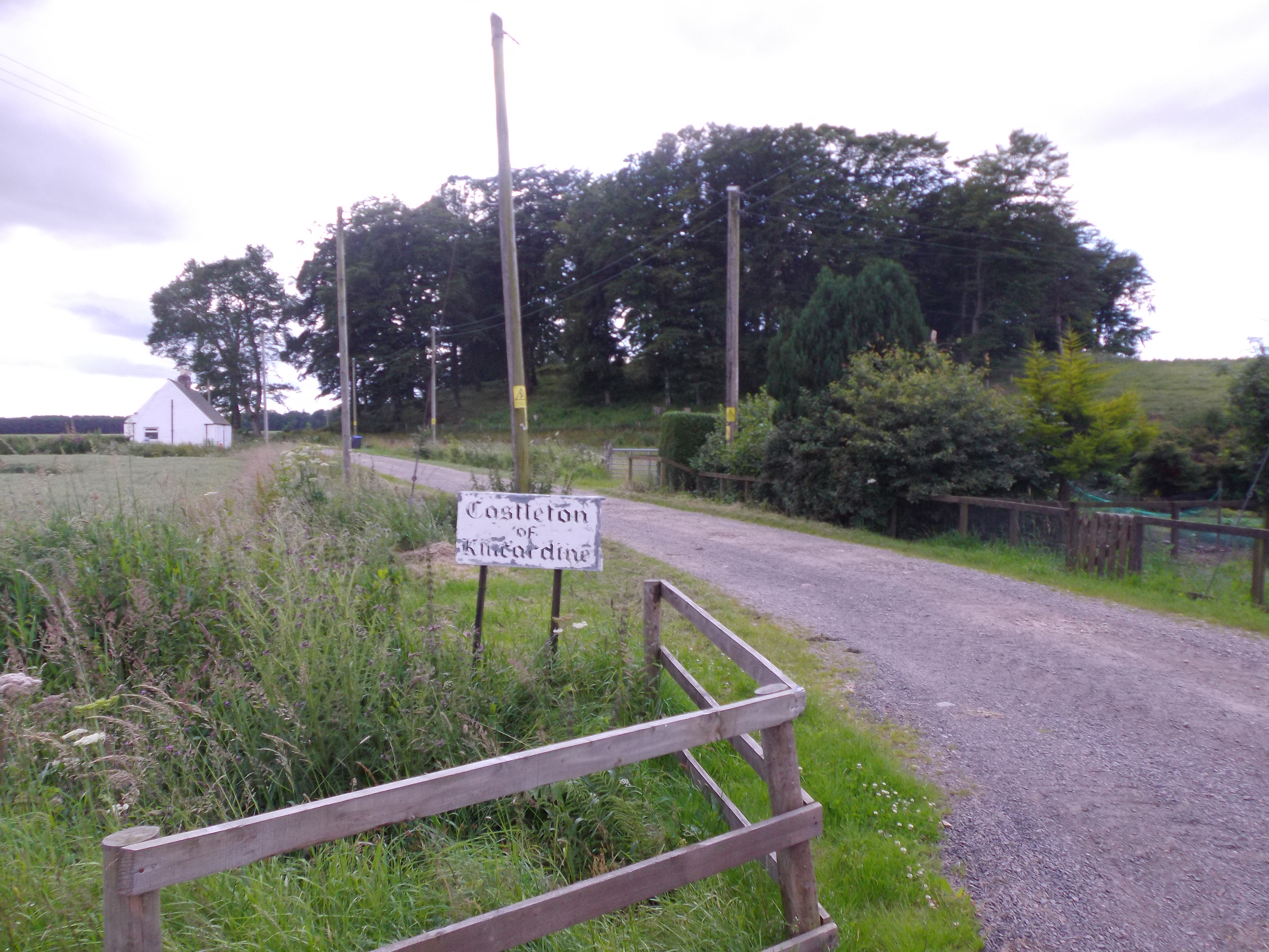 A copse containing the remains of Kincardine Castle